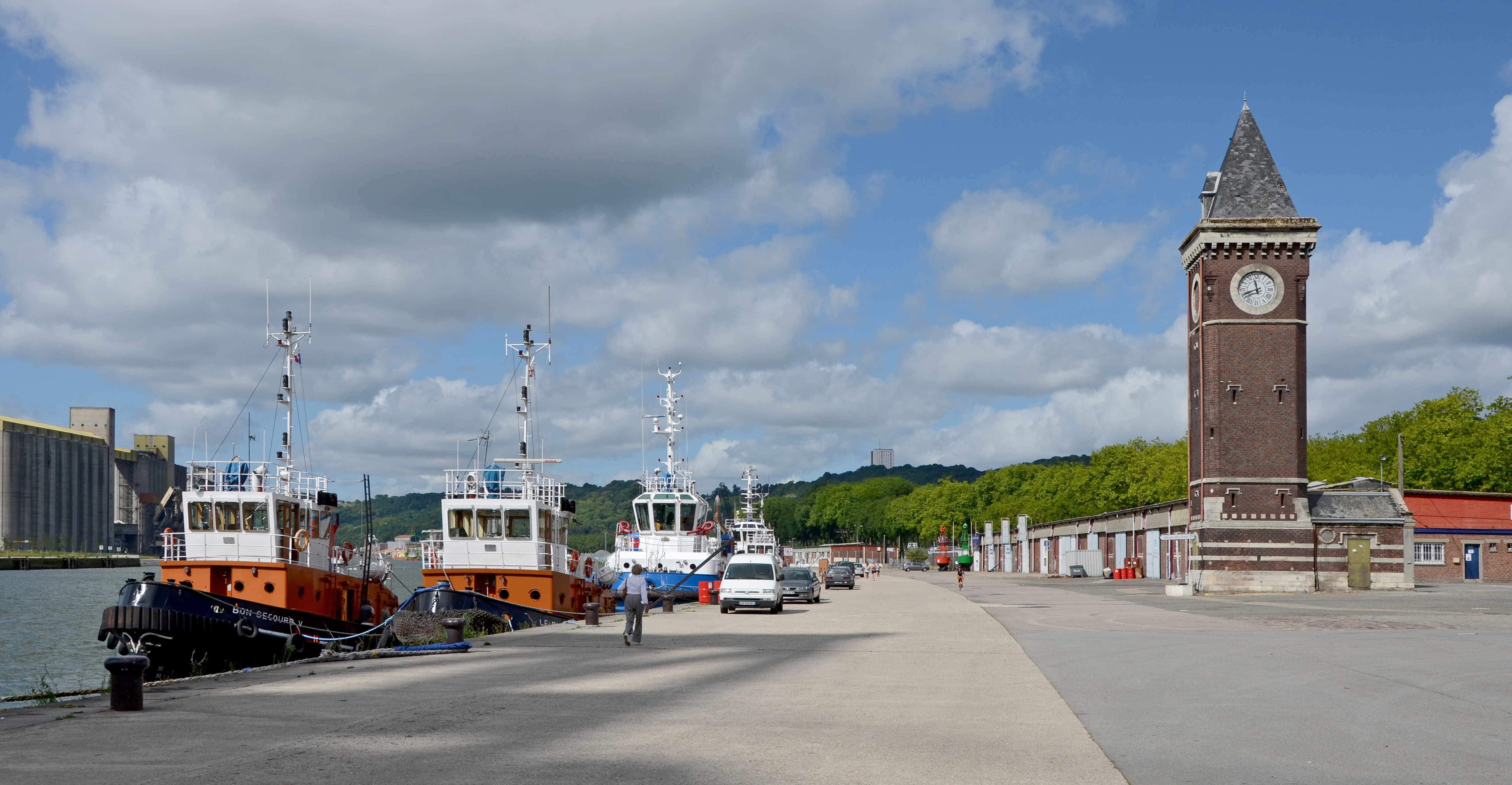 Quay in the port of Rouen,Seine Maritime, Normandie, France